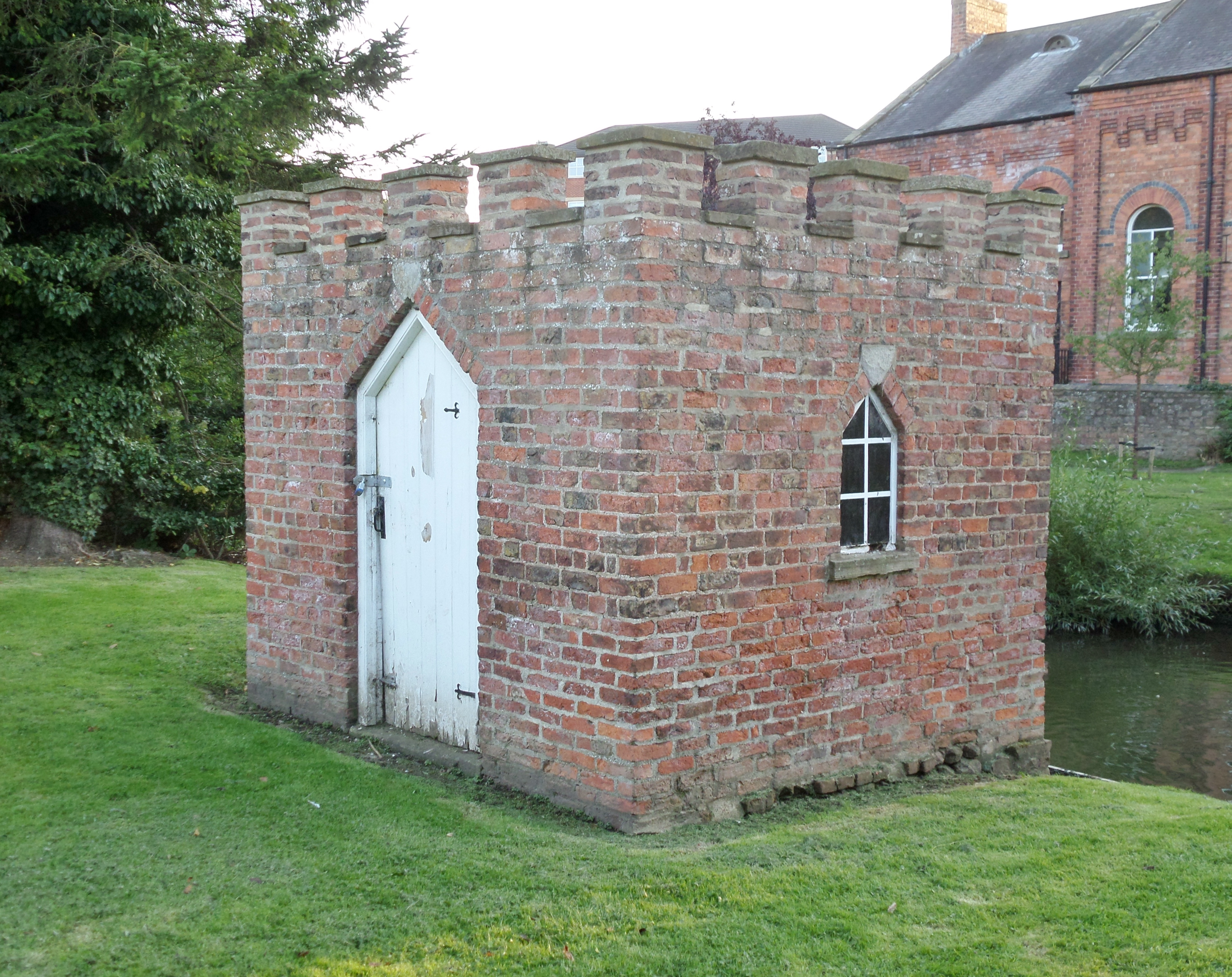 The Bedale Medicinal Leech House, Bedale Beck, North Yorkshire, England - the entrance.